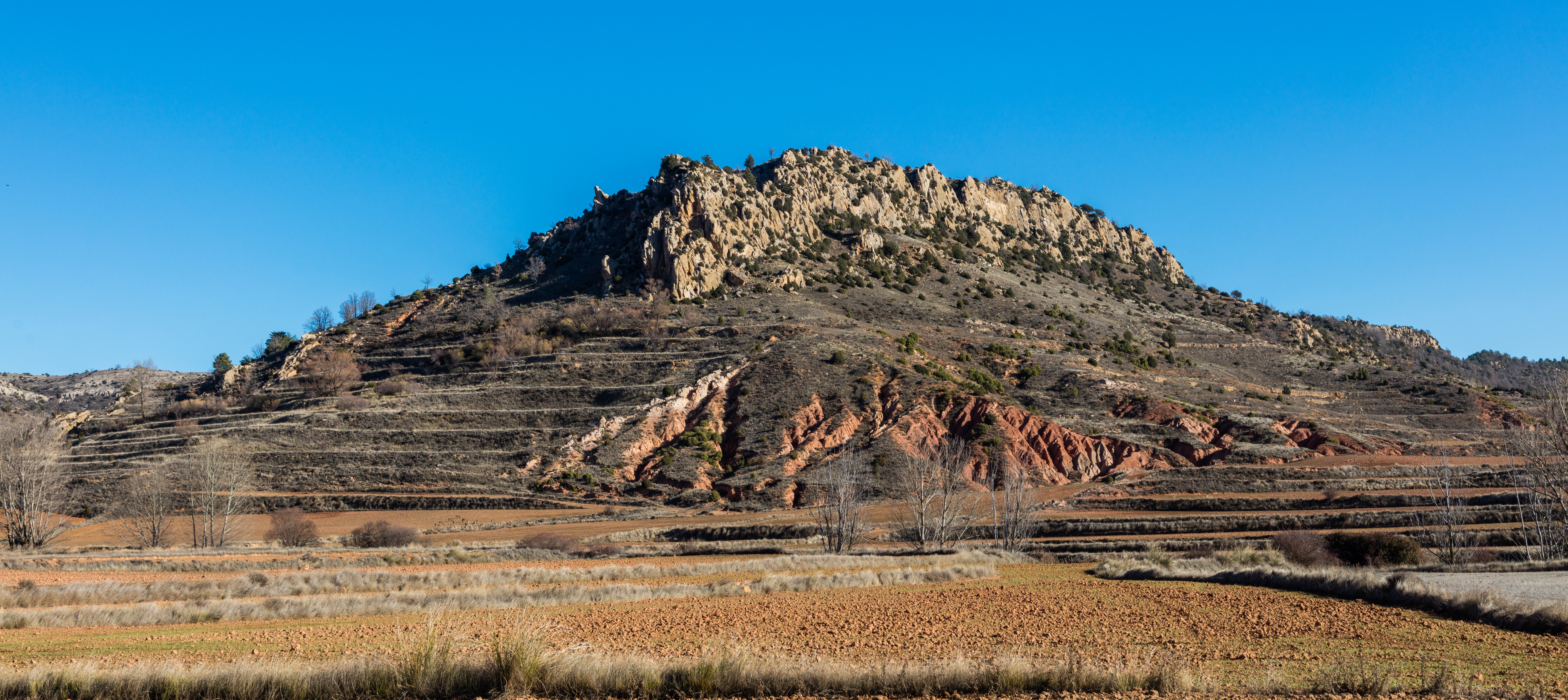 Landscape in Segura de los Baños, Teruel, Spain